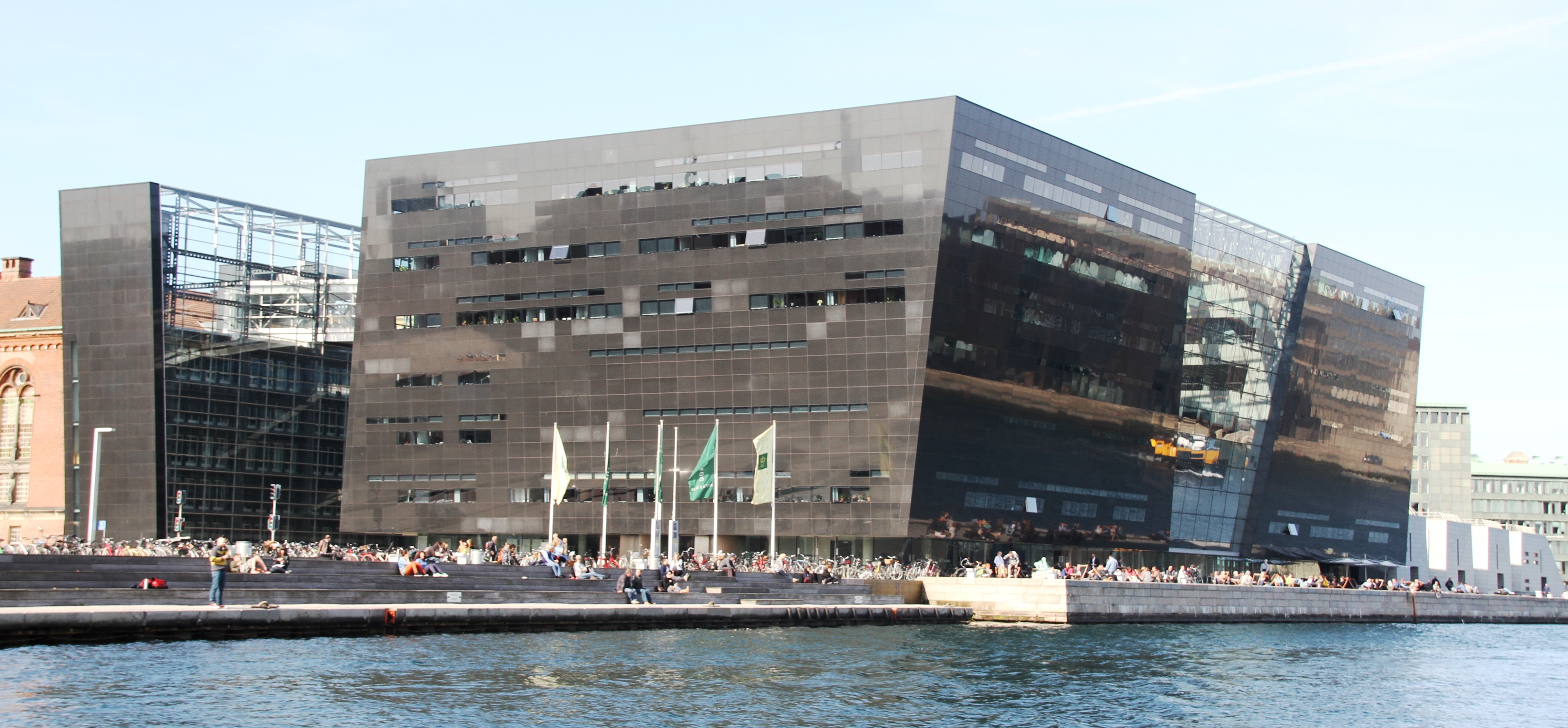 Image from the central parts of Copenhagen, capital of Denmark.